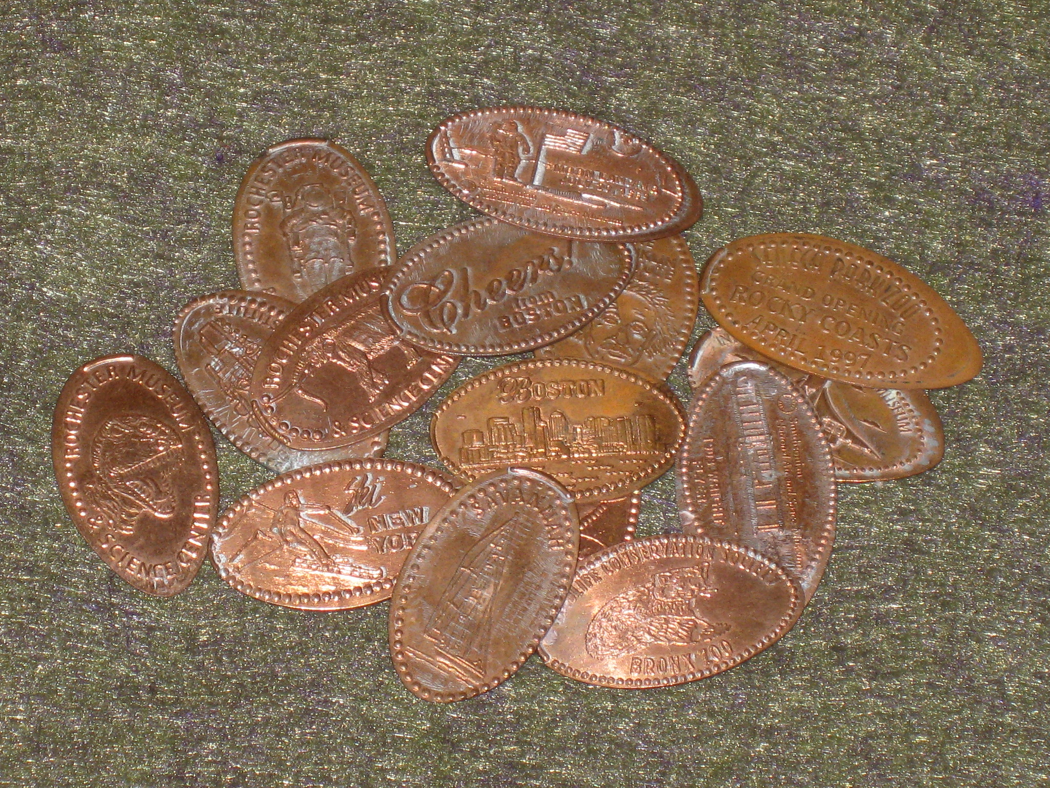 photo of pressed pennies